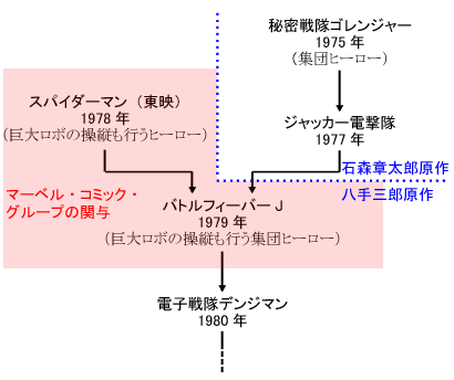 history of super sentai series